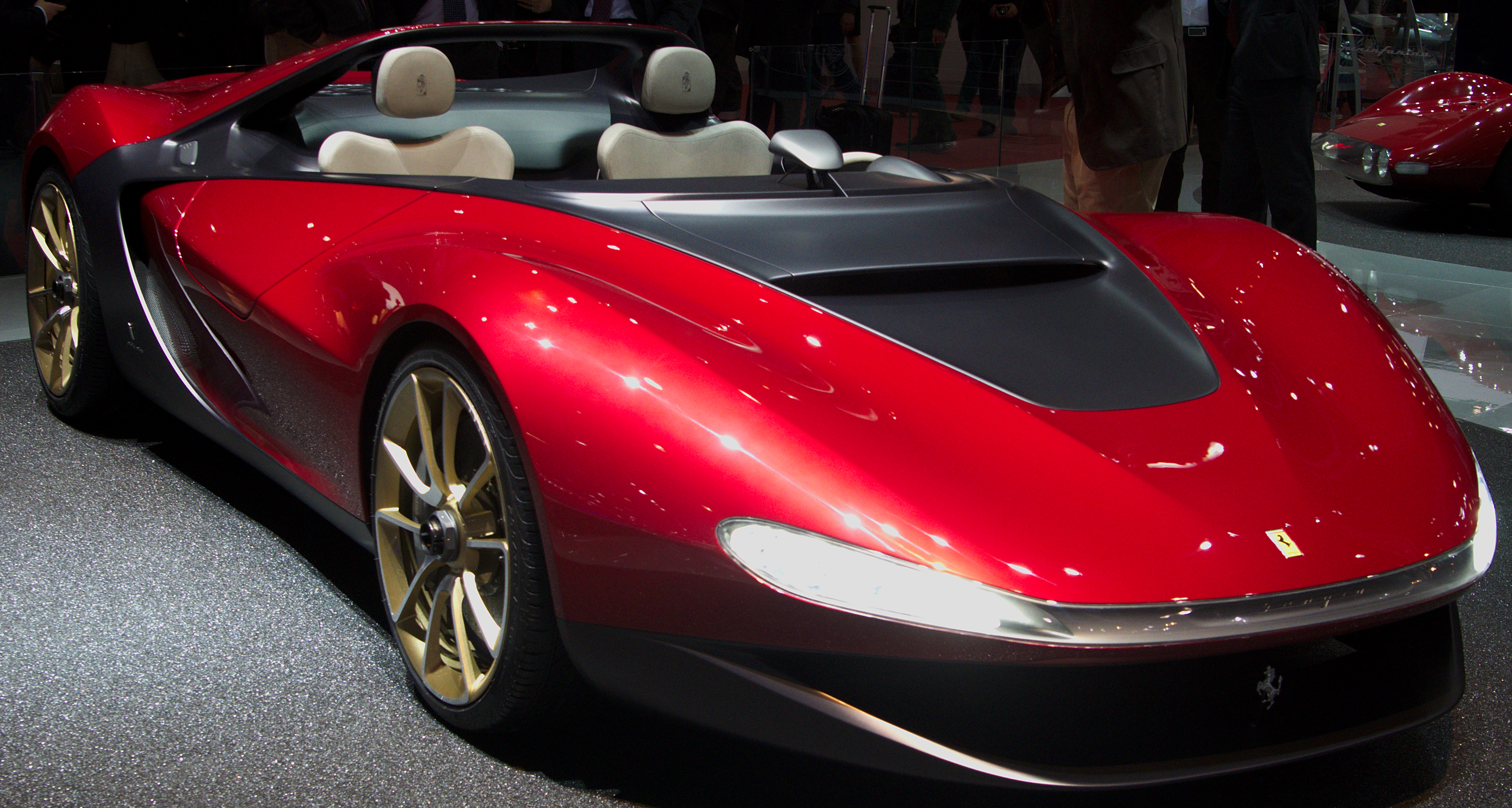 Geneva MotorShow 2013 - Pininfarina Sergio right front view